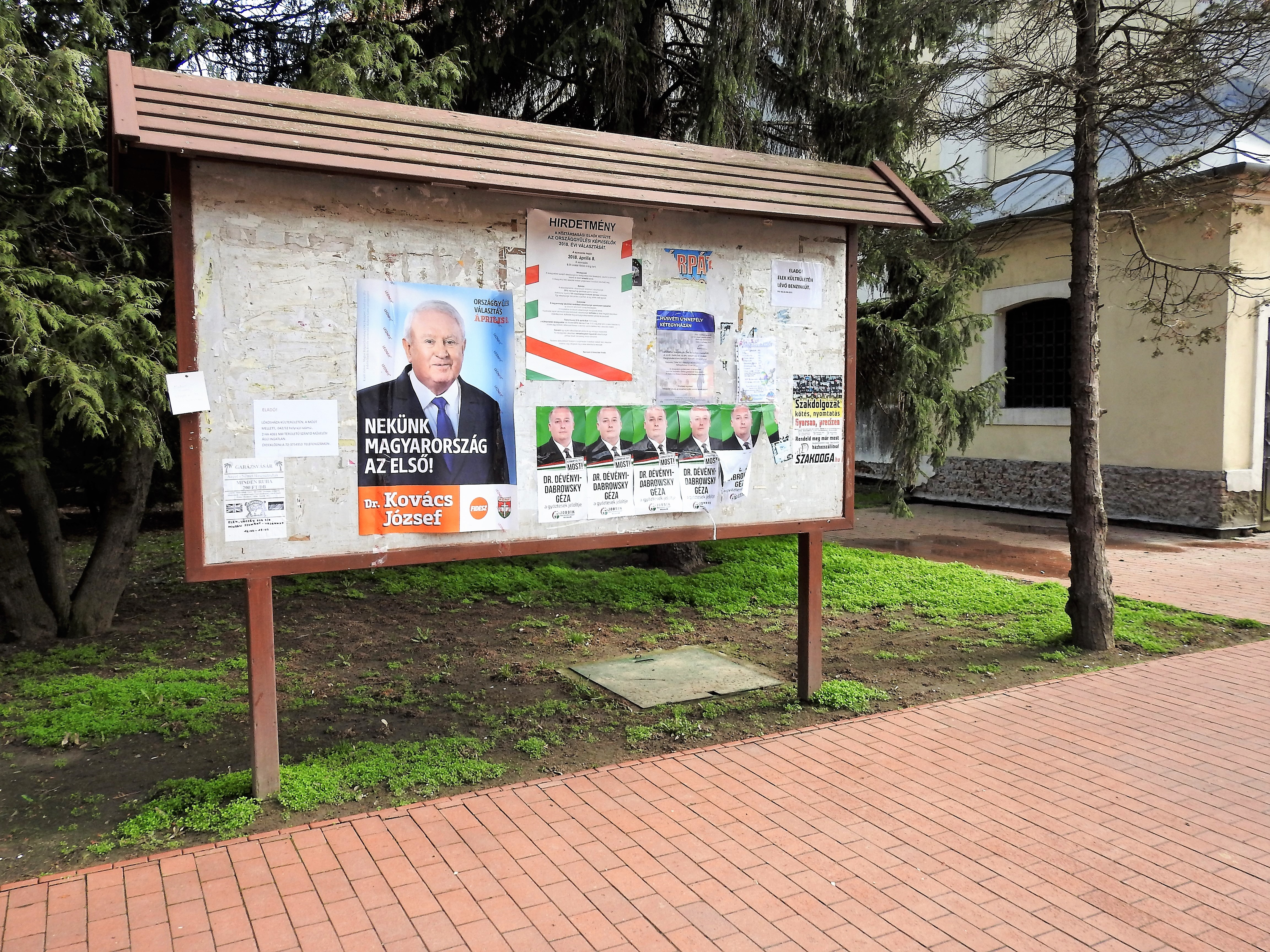 Posters of the 2018 Hungarian parliamental elections campaign in number 3 parliamentary single-member constituency (Elek) in Békés county